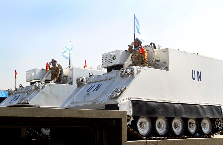 Iranian peacekeepers of the United Nations with M577 APCs with UN marking during Sacred Defence Week parade.